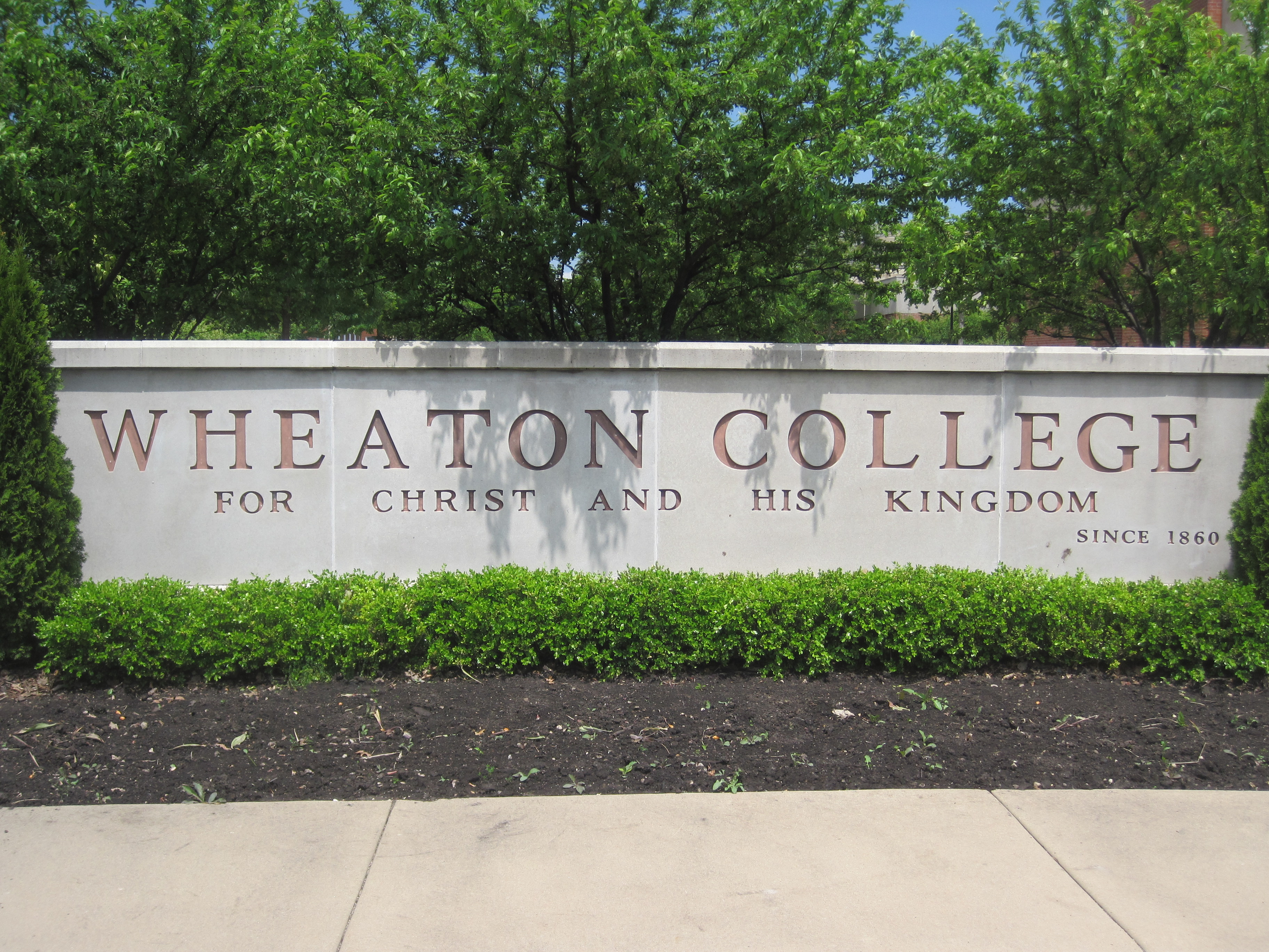 The motto of Wheaton College